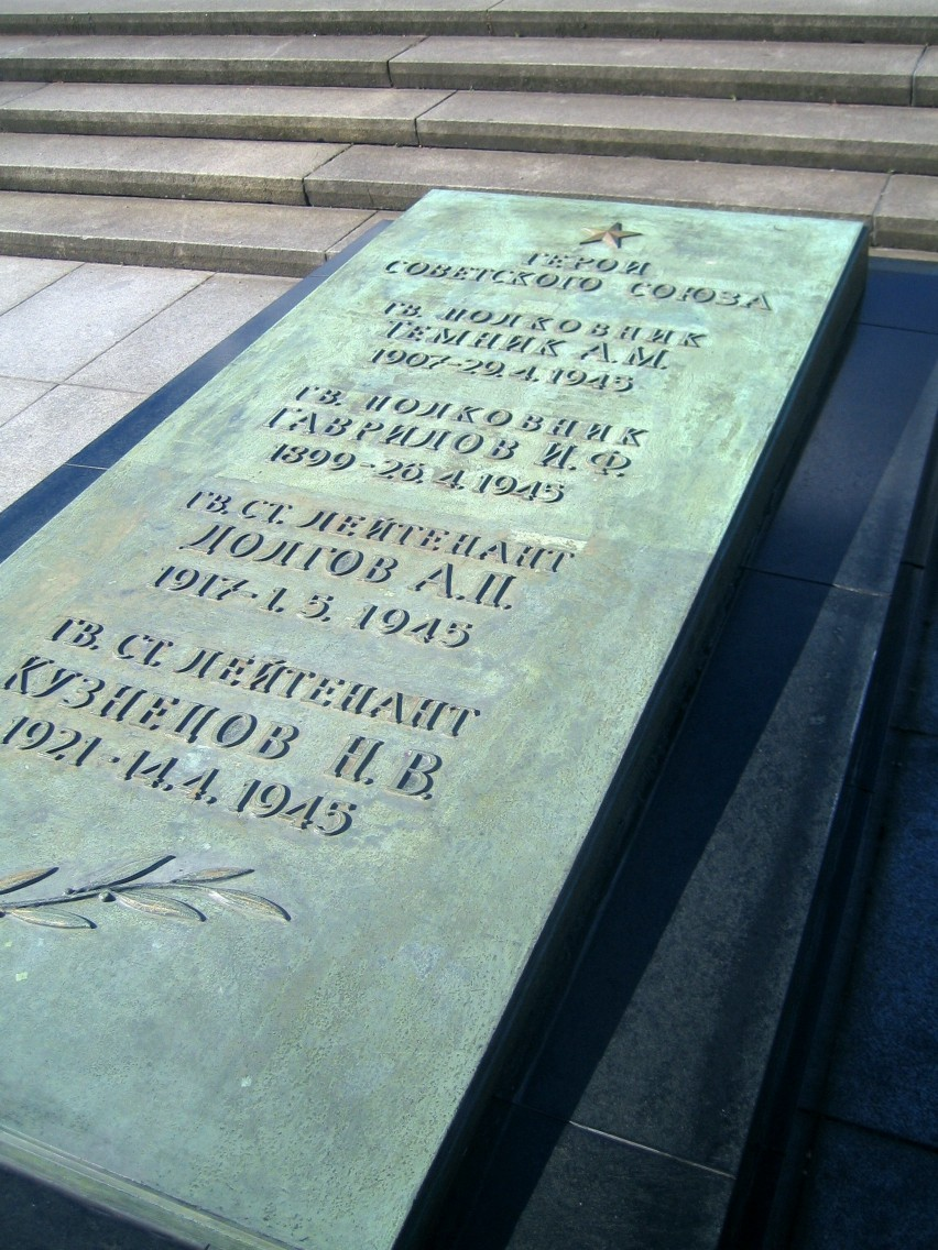 Berlin-Tiergarten, memorial for Soviet soldiers who died in Berlin in the last days of World War II. Sarcophagus.